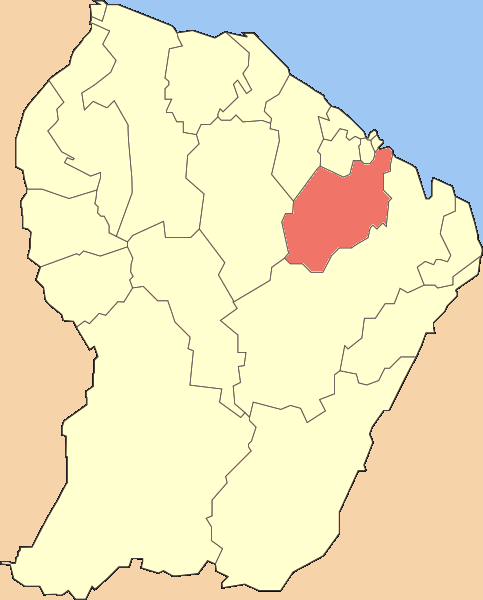 Made map myself.